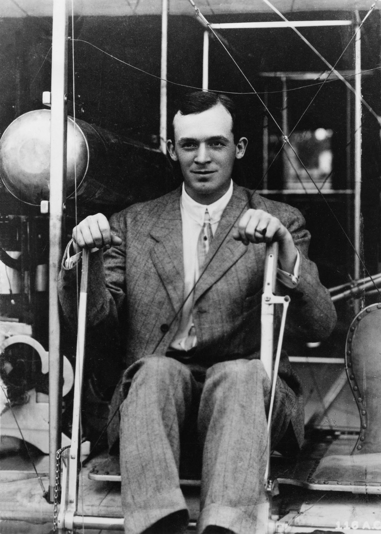 2d Lt H.H. Arnold (25 yrs. old) sitting at the controls of a Wright Type B two-seater at the Wright Flying School, Dayton, OH, 1911.